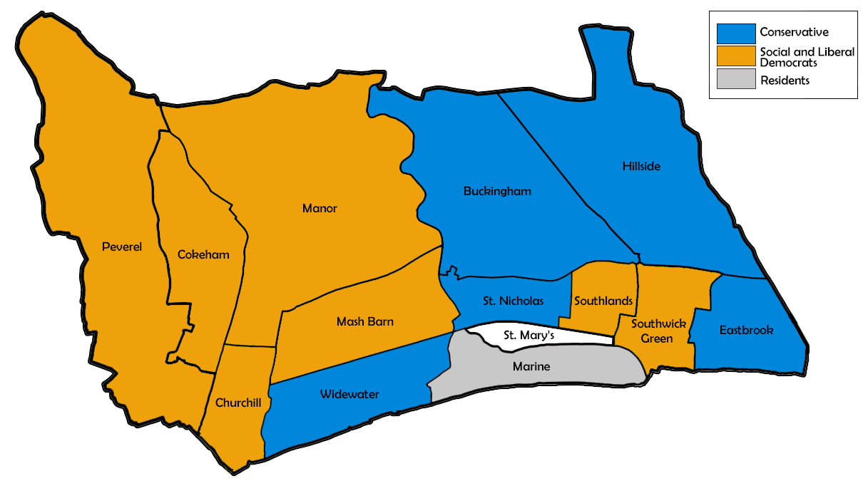 Ward map of Adur council with political colouring for the 1988 election.